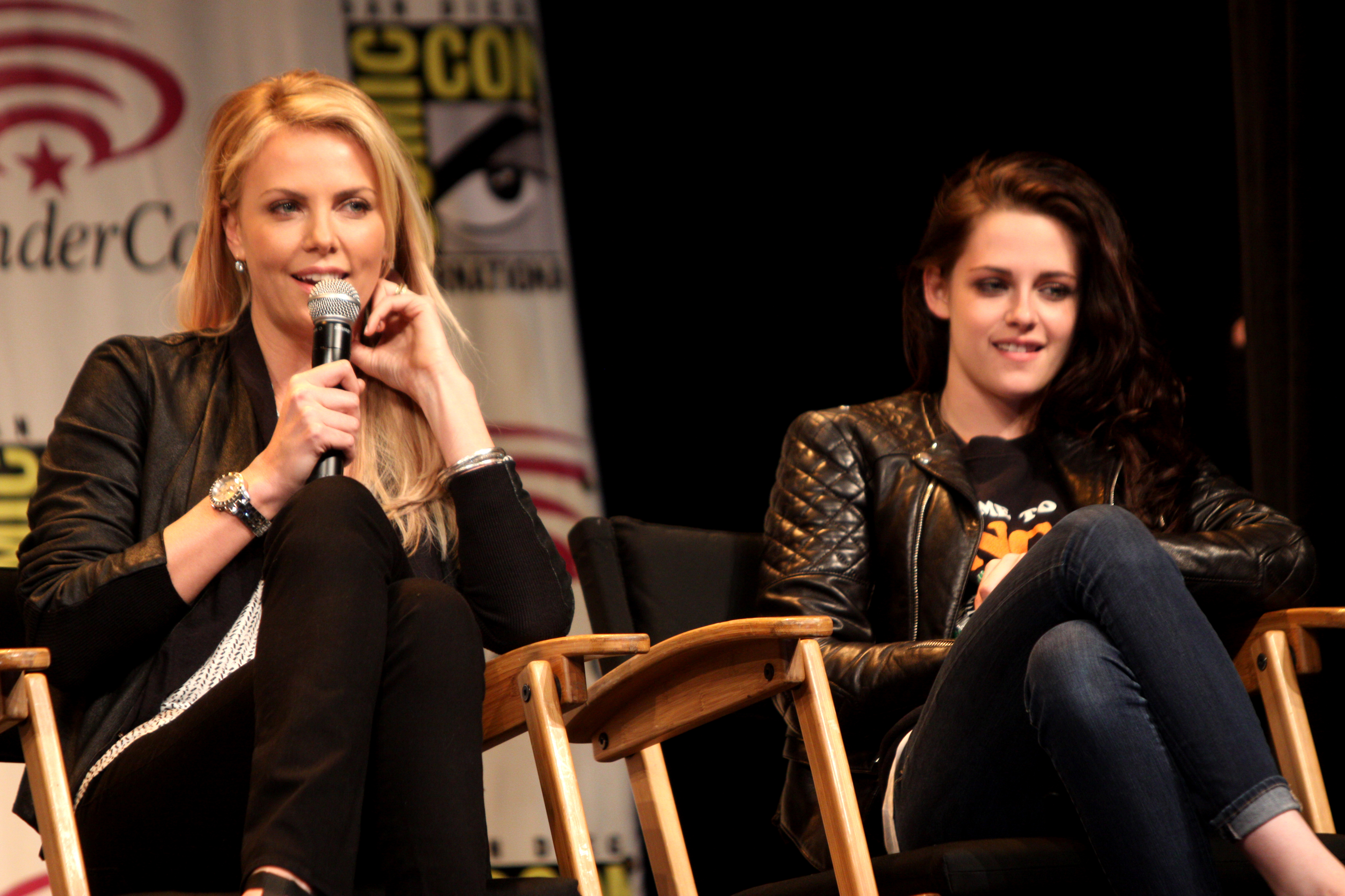 Kristen Stewart and Charlize Theron speaking at Wondercon 2012 in Anaheim, California on March 17, 2012.